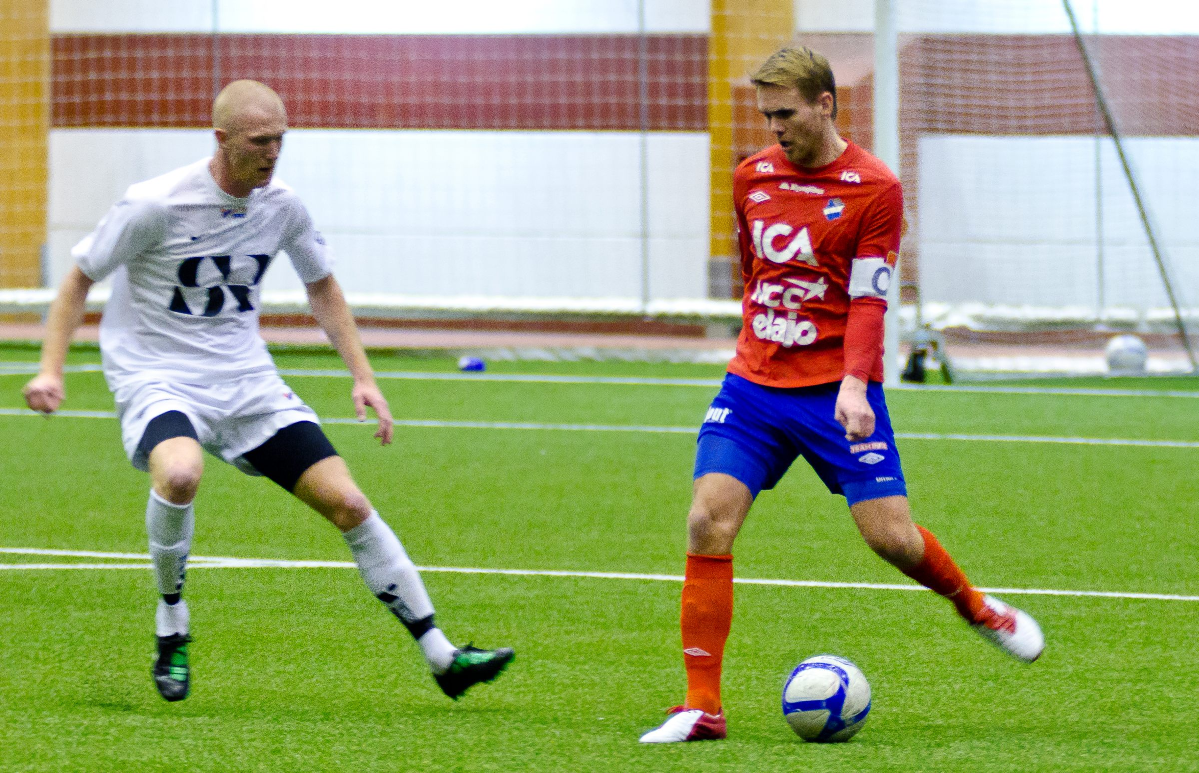 Icelandic midfielder Davíð Viðarsson playing the ball in an early 2012 pre-season friendly.